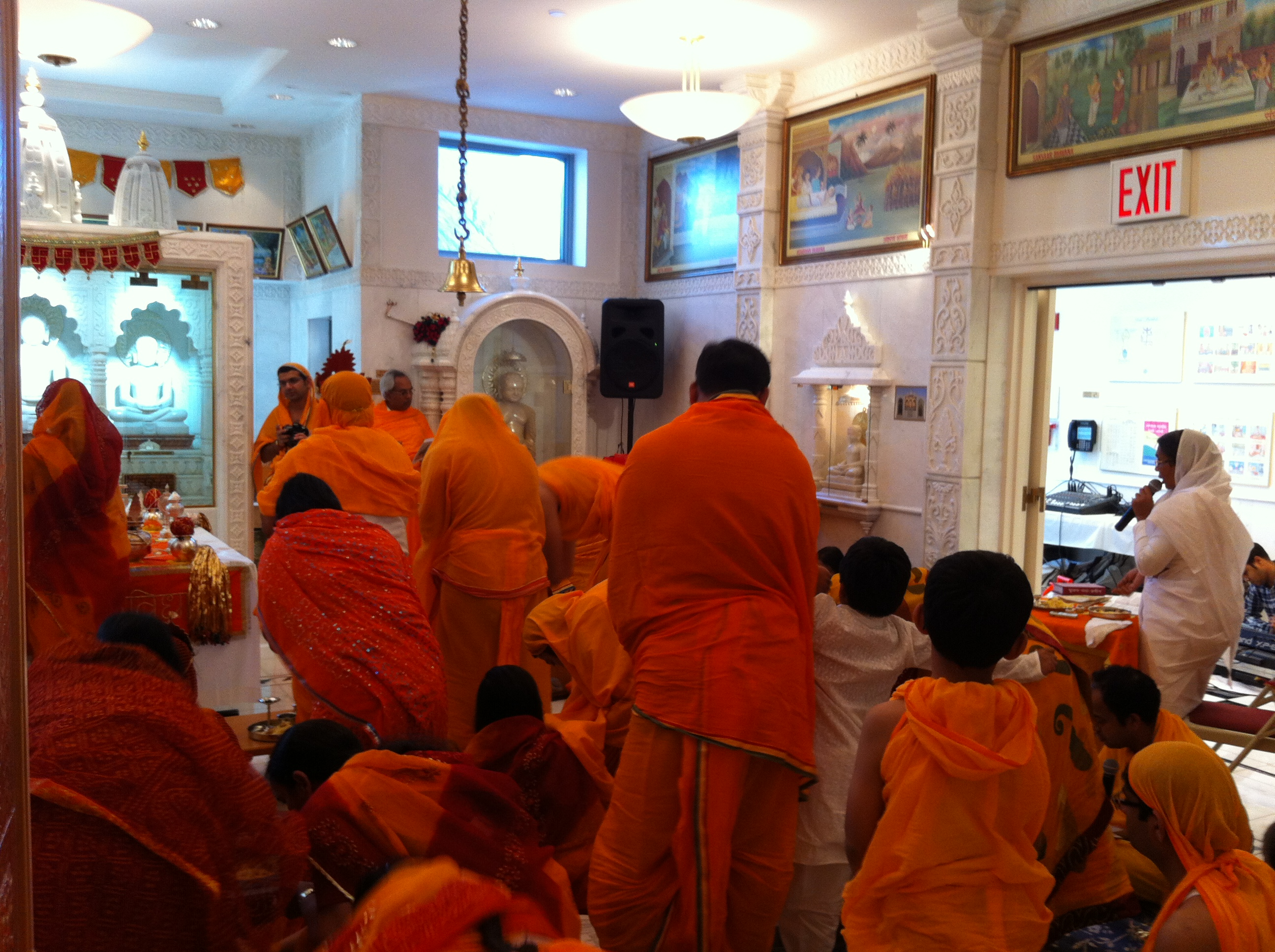 Inside a Jain temple, Jains celebrating the 10 day Das Lakshana (Paryusana) festival. Taken at the Jain Center of America, New York City, New York, USA.